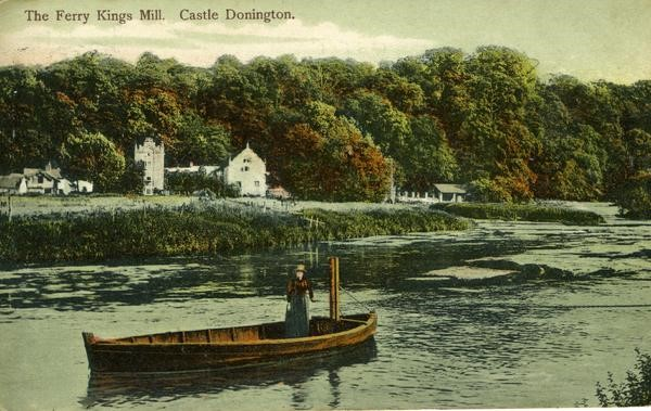 Postcard of the ferry at King's Mill near Castle Donington. Mills Archive source page states that "This copy of the postcard bears an Edward VII stamp; the image therefore presumably dates from his reign (1901-1910) or earlier."